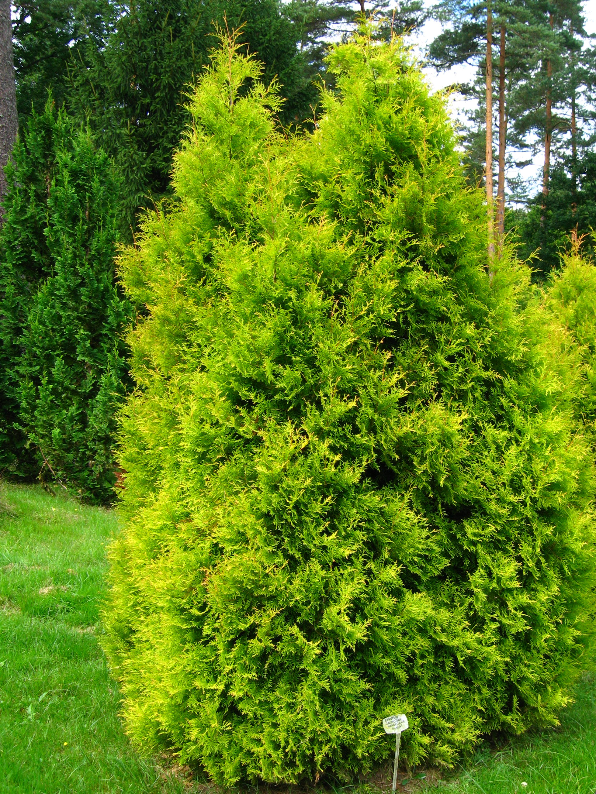 Northern Whitecedar var. Ellwangeriana Aurea (Thuja occidentalis 'Ellwangeriana Aurea')